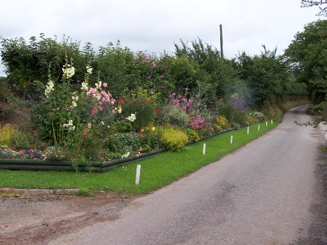 Manorbier Newton. A colourful border at the side of the road on the eastern edge of Manorbier Newton